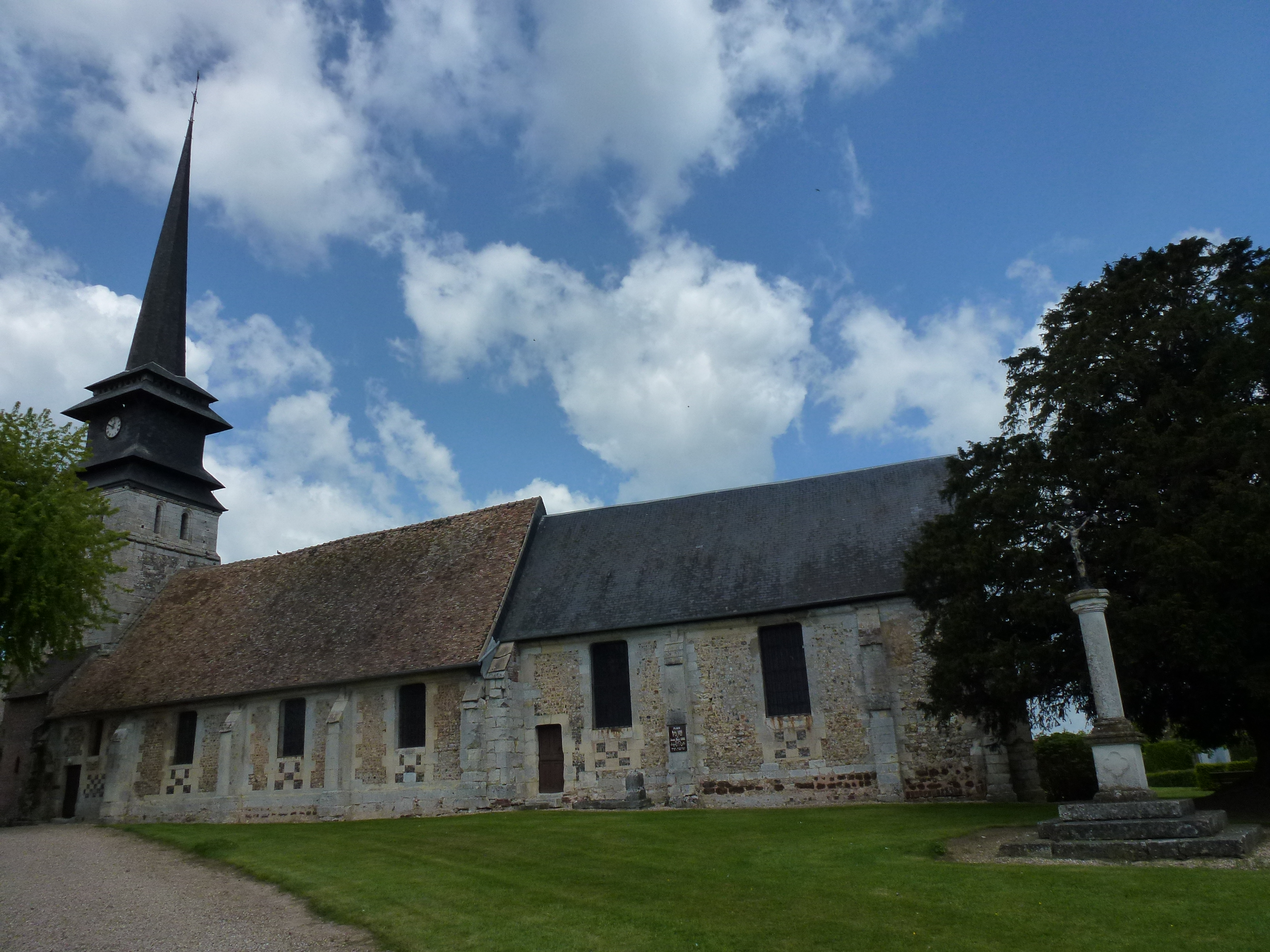 Tourville-la-Campagne (Eure, Fr) église.